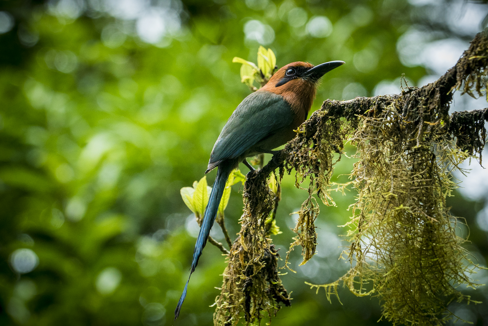 Broad-billed motmot (Electron platyrhynchum), Arenal Volcano, Costa Rica